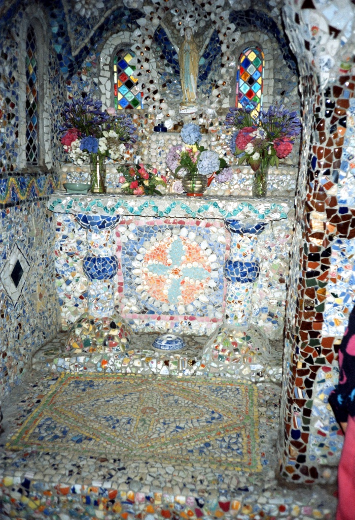 The "little chapel" (inside shot; it's not much larger than this...)